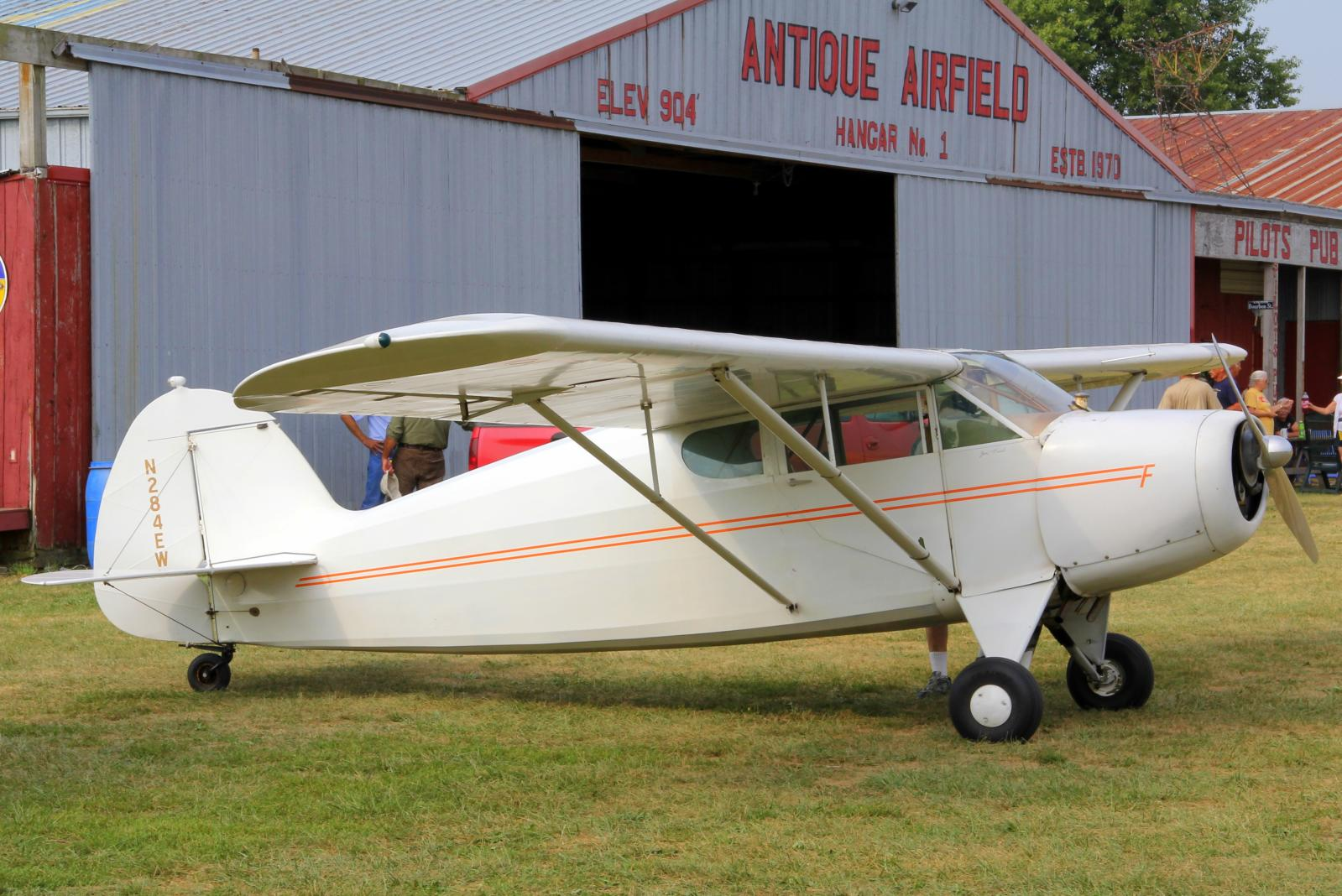 1941 Funk B75L C/N 210